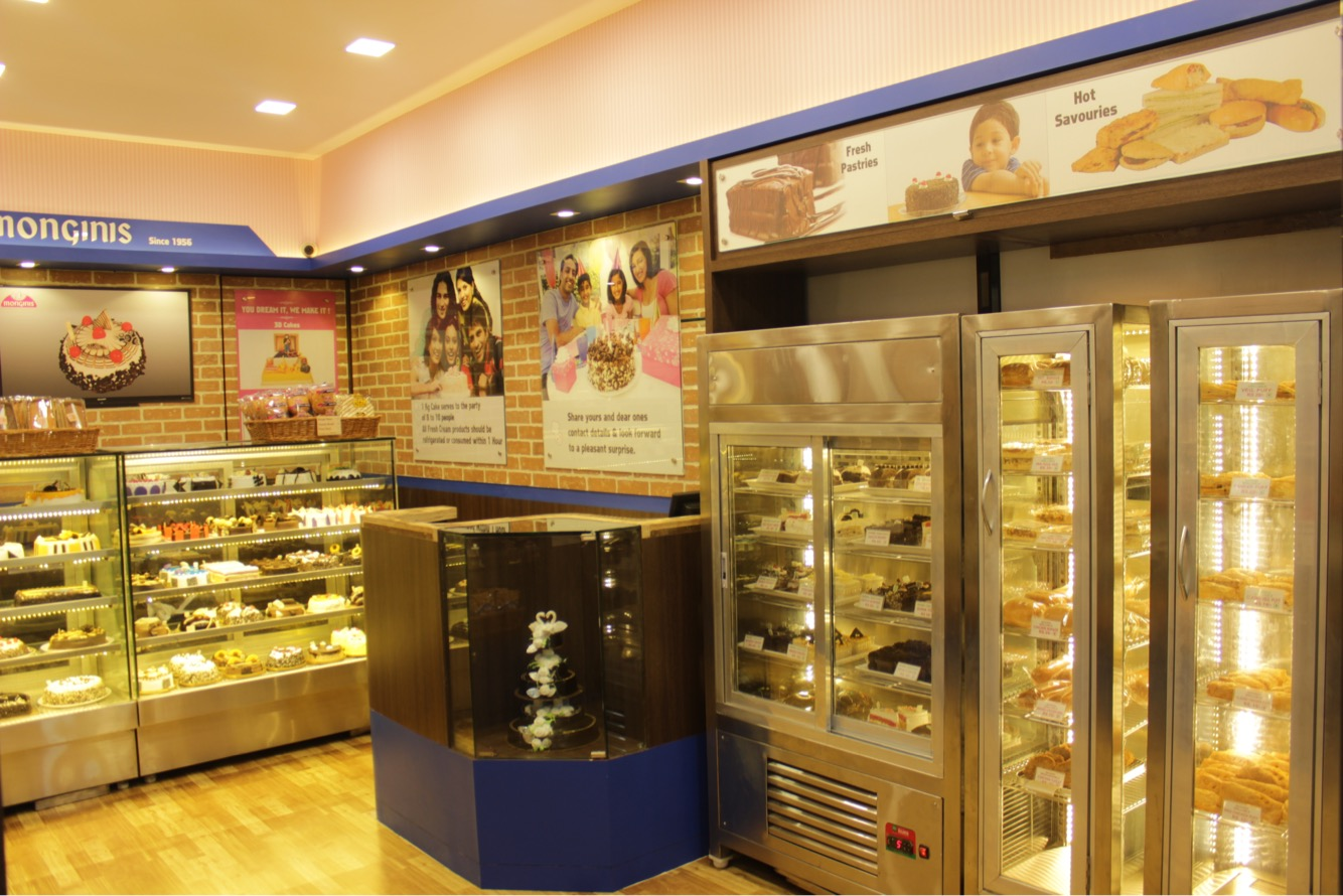 Newly launched Monginis Cake Shop